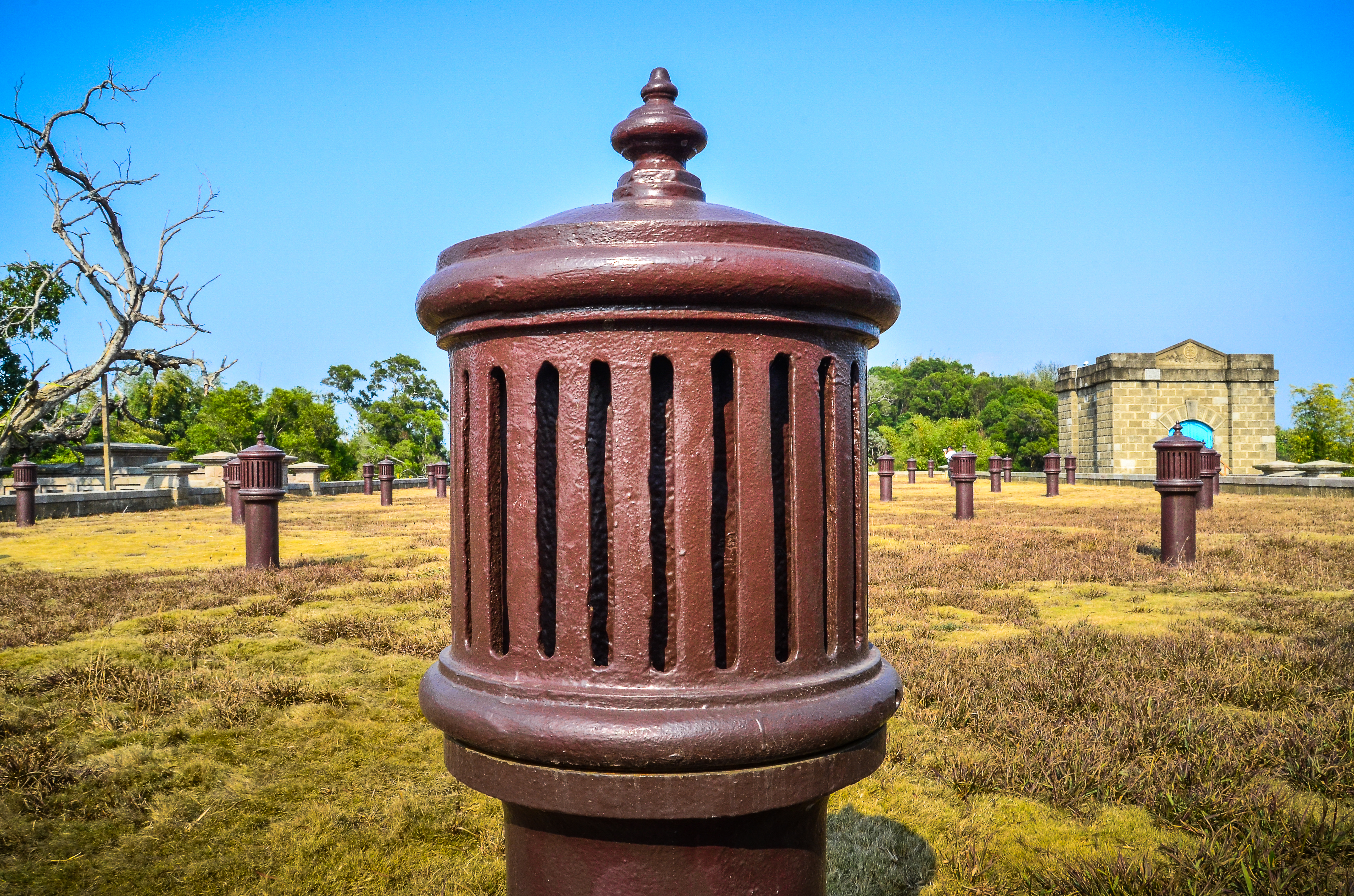 Cast iron air relief pipes at the top of the storage tank at the Shanshang Water Treatment Plant, Tainan City, Taiwan.